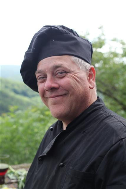 Portrait photo of food historian and author Ken Albala